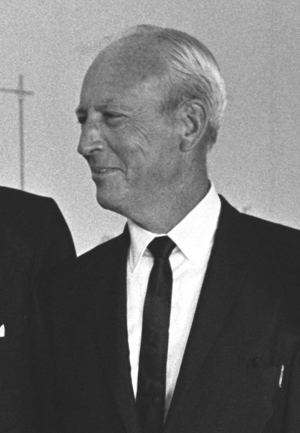 Hawaii Governor John A. Burns meets with President Lyndon Johnson.